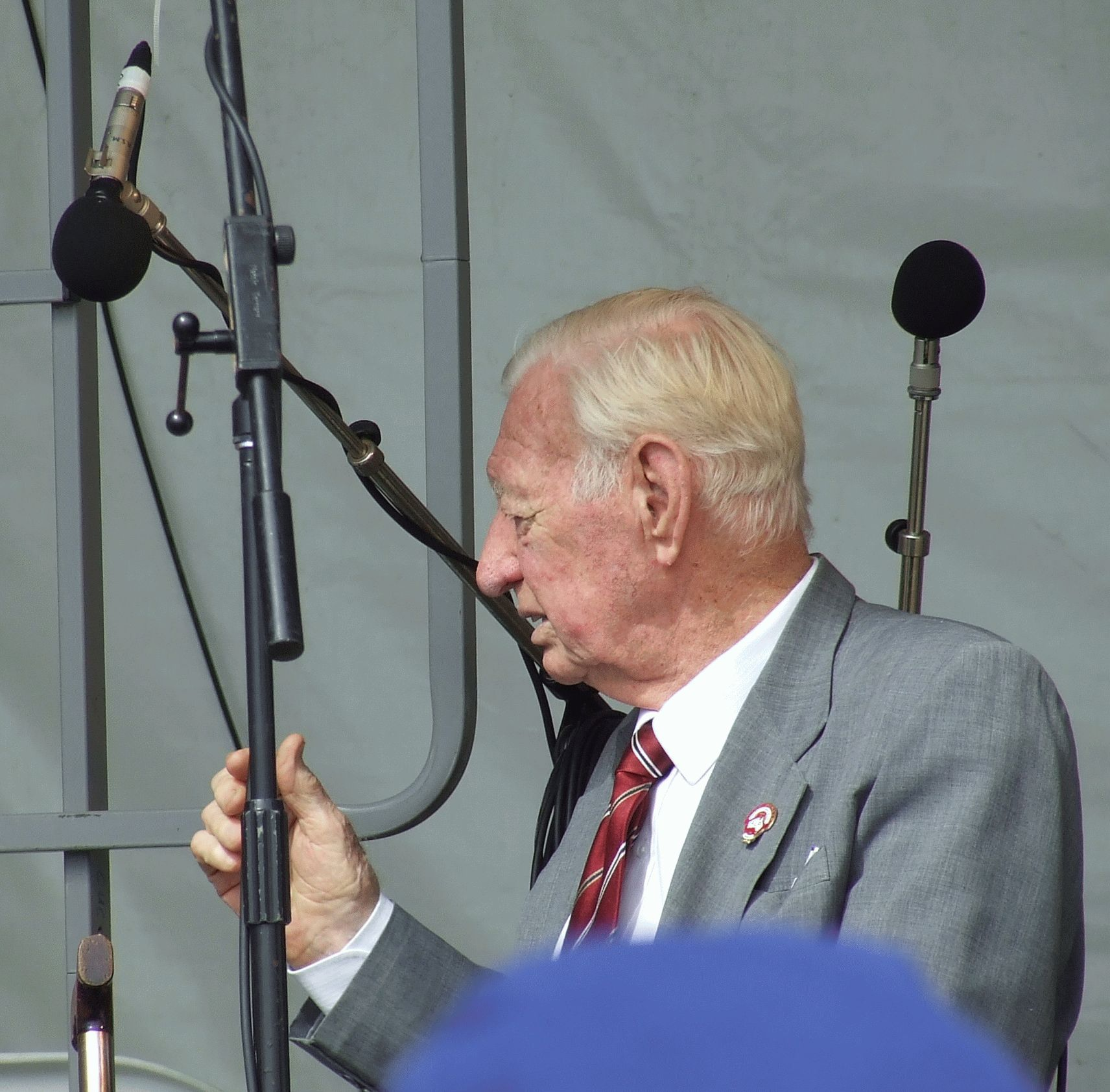 Clem Jones at Labour Day 2007, Brisbane, Australia